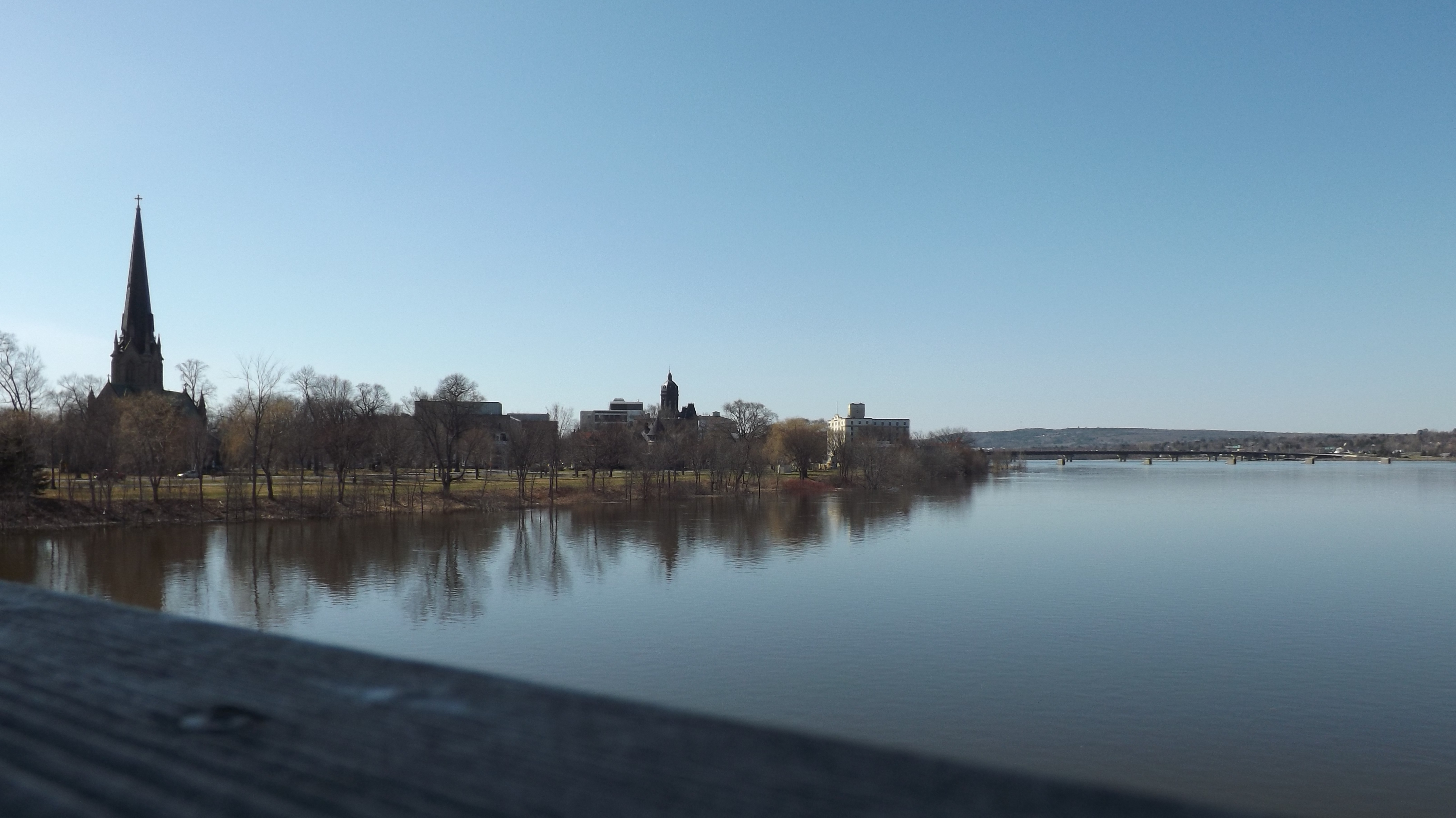 Fredericton skyline, spring 2013.